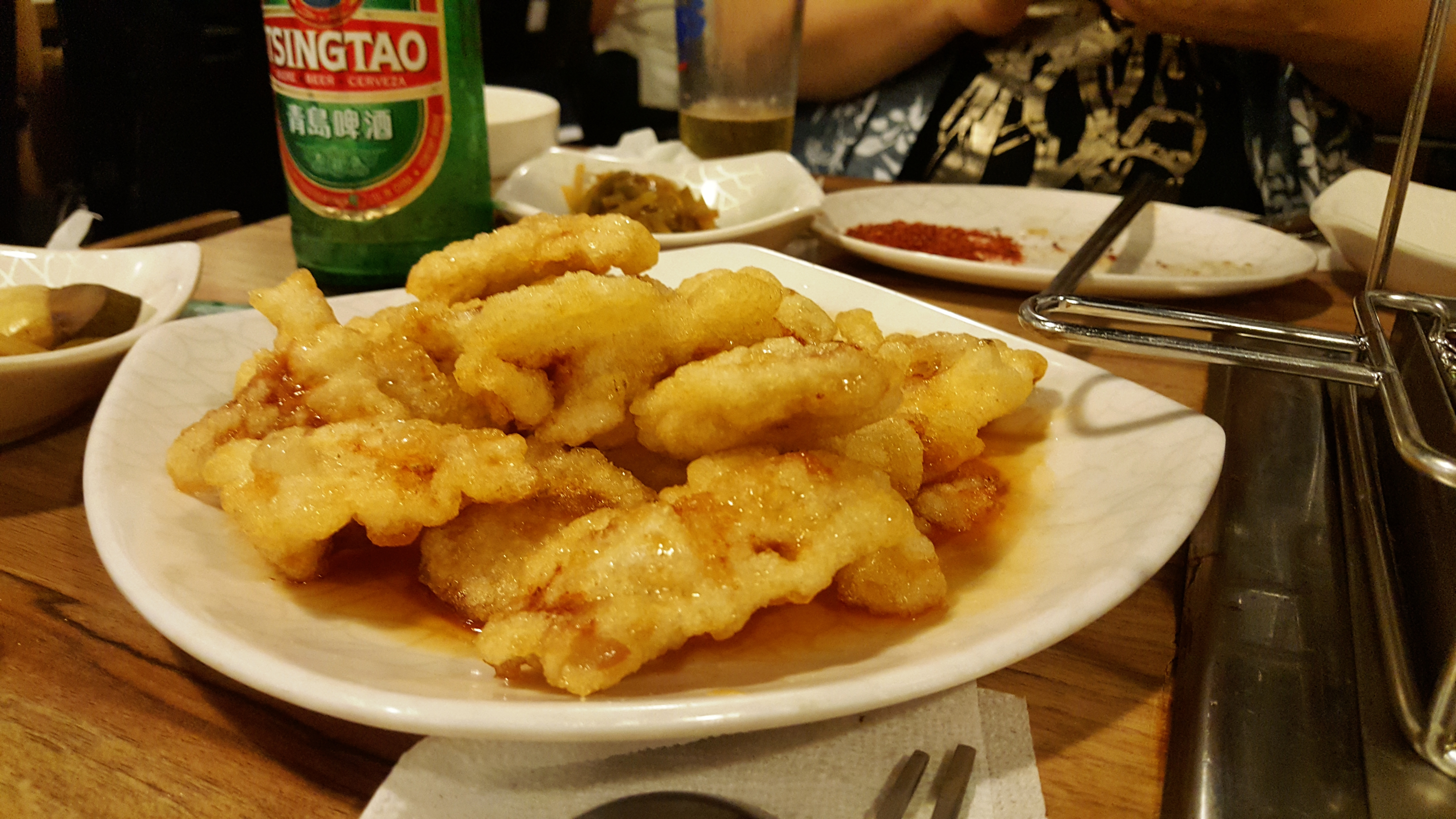 Guobaorou